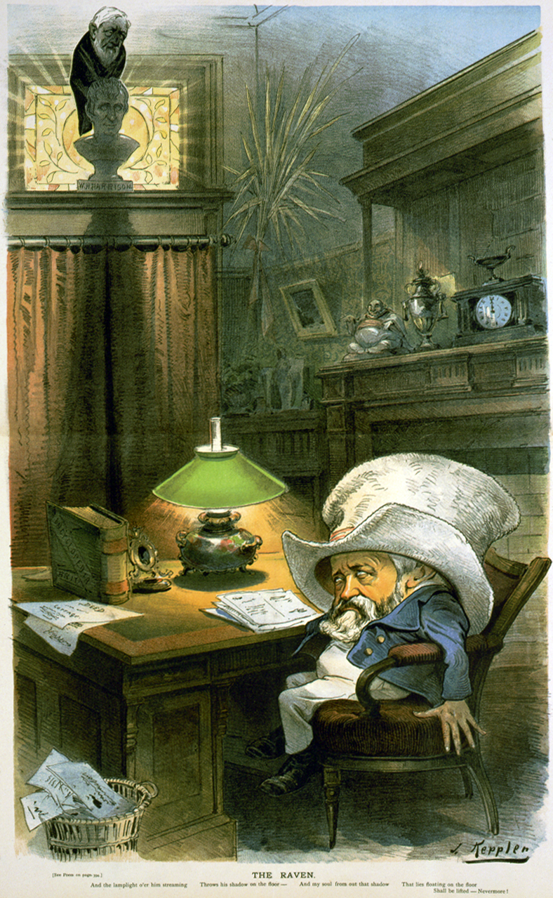 An editorial cartoon lampooning U.S. President Benjamin Harrison. "The Raven". An 1890 Puck cartoon depicts Benajamin Harrison at his desk wearing the hat of his grandfather (President William Henry Harrison) which is too big for his head, suggesting that he is not fit for the presidency. Atop a bust of William Henry Harrison, a raven with the head of Secretary of State James G. Blaine gawks down at the President, a reference to the famous Edgar Allan Poe poem "The Raven."